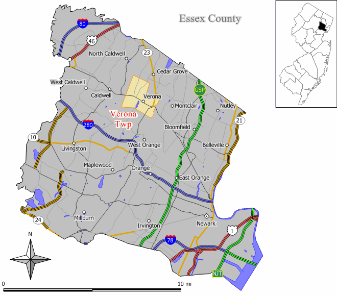 Source: Jim Irwin Original work by Jim Irwin, December 2005.